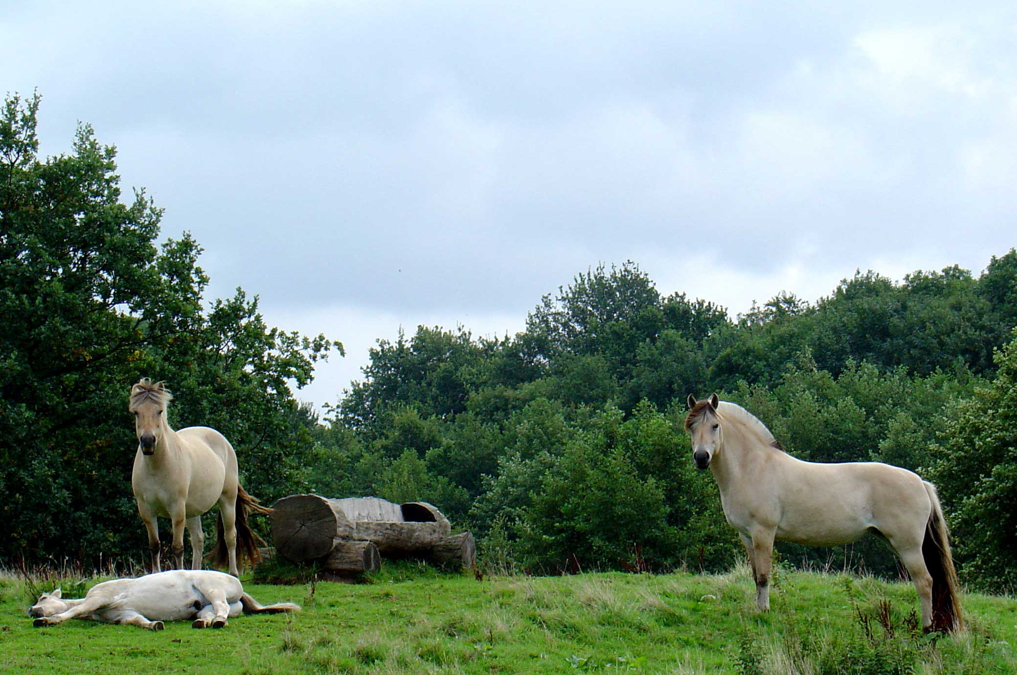 Norwegian fjord horse